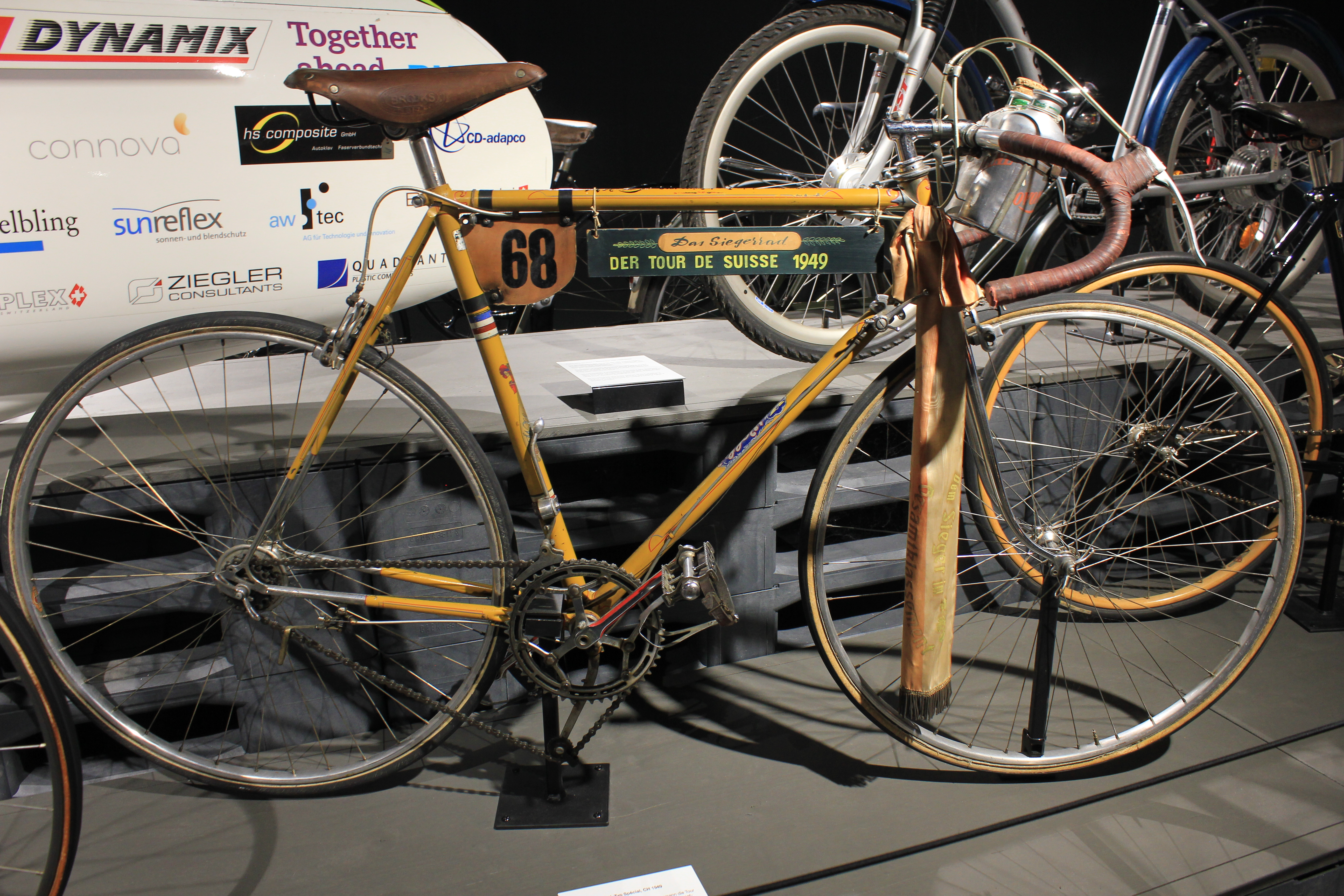 Gottfried Weilenmann won the 1949 Tour de Suisse on this bicycle.It's equipped with a 4-step gear changer. The bicycle features in the road transport hall of the Swiss Museum of Transport.